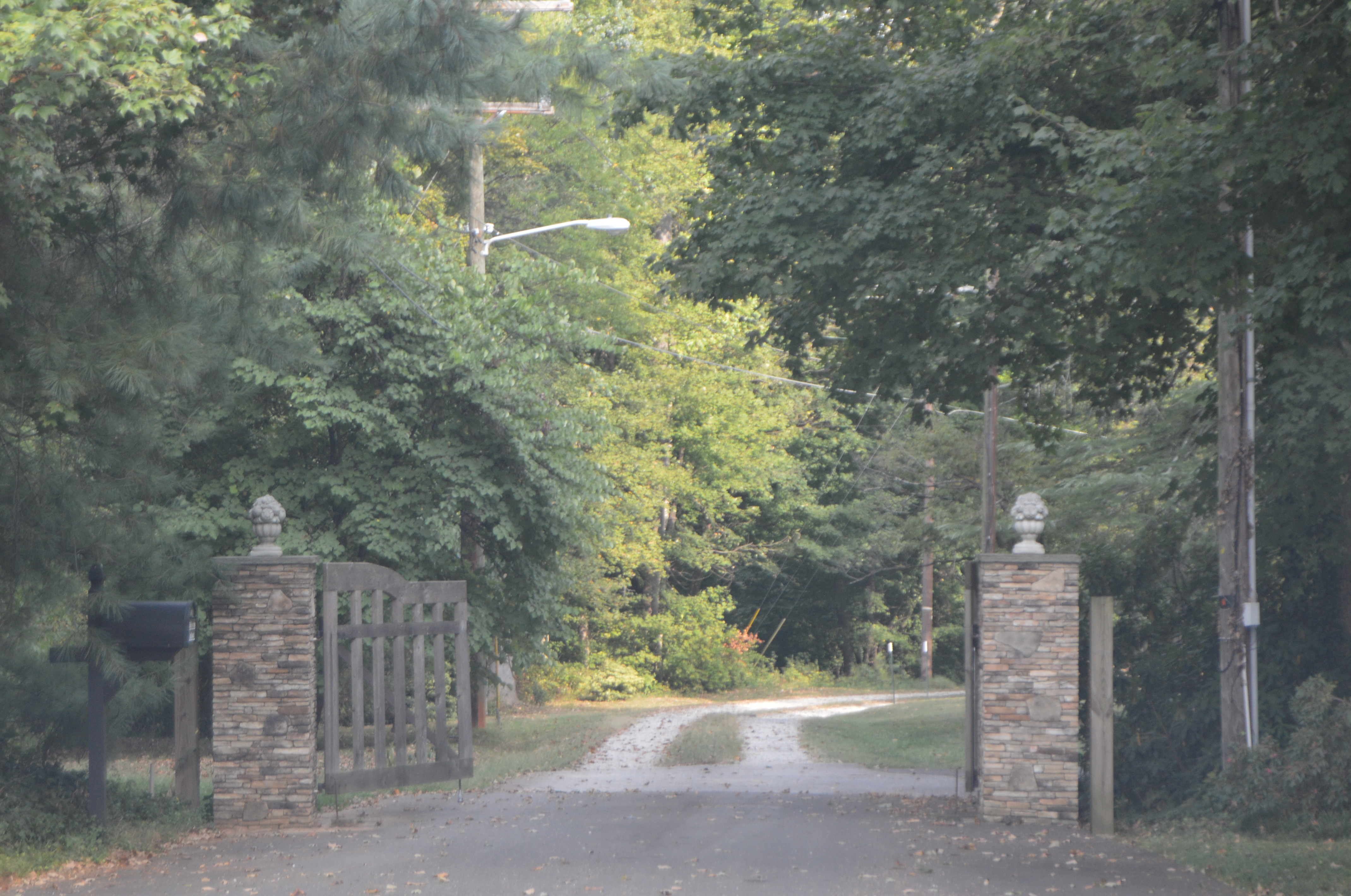 Driveway to the Jesse Clement House, located at the eastern end of Maple Avenue in Mocksville, North Carolina, United States. The house is listed on the National Register of Historic Places.